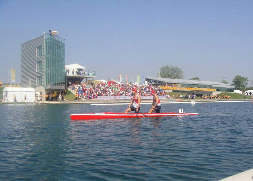 Benjamin Russell (kayaker) and Gabriel Beauchesne-Sévigny of Canada after the gold medal race in the Men's C-2 1000 metres canoeing sprint event at the 2015 Pan American Games